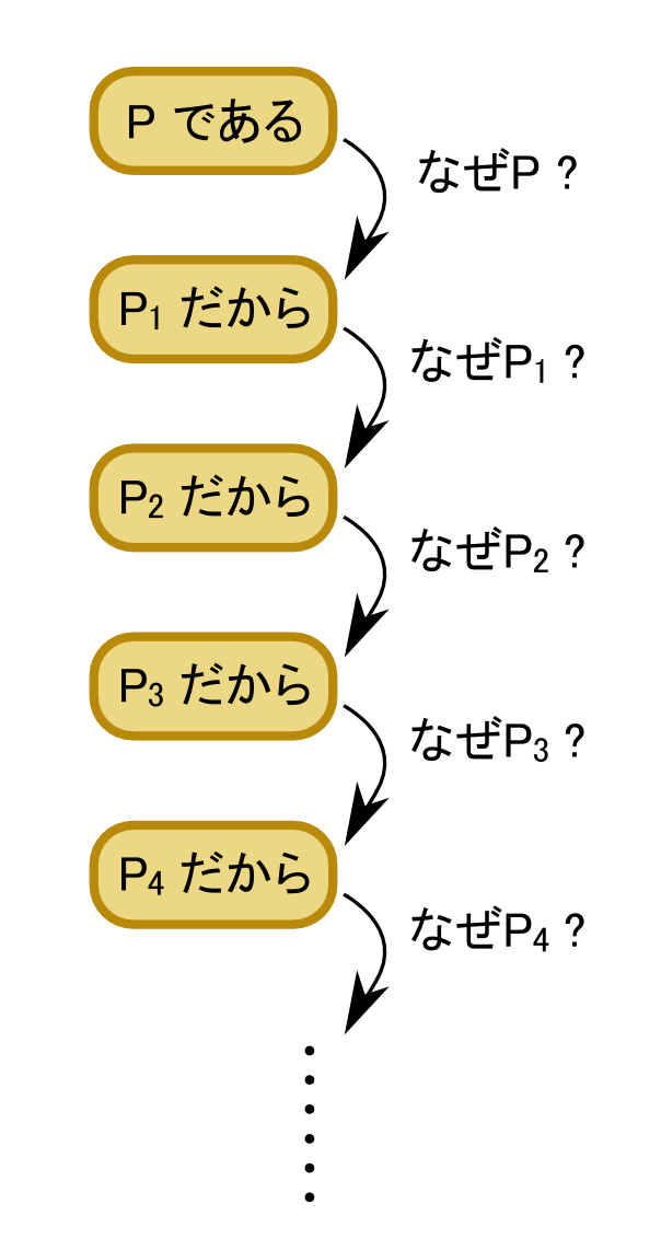 diagram represent infinite regress. in Japanese. I made diagram based on Toshihiko Miura "Ronrigaku ga wakaru jiten(Introduction to Logic)" ISBN 4534037104